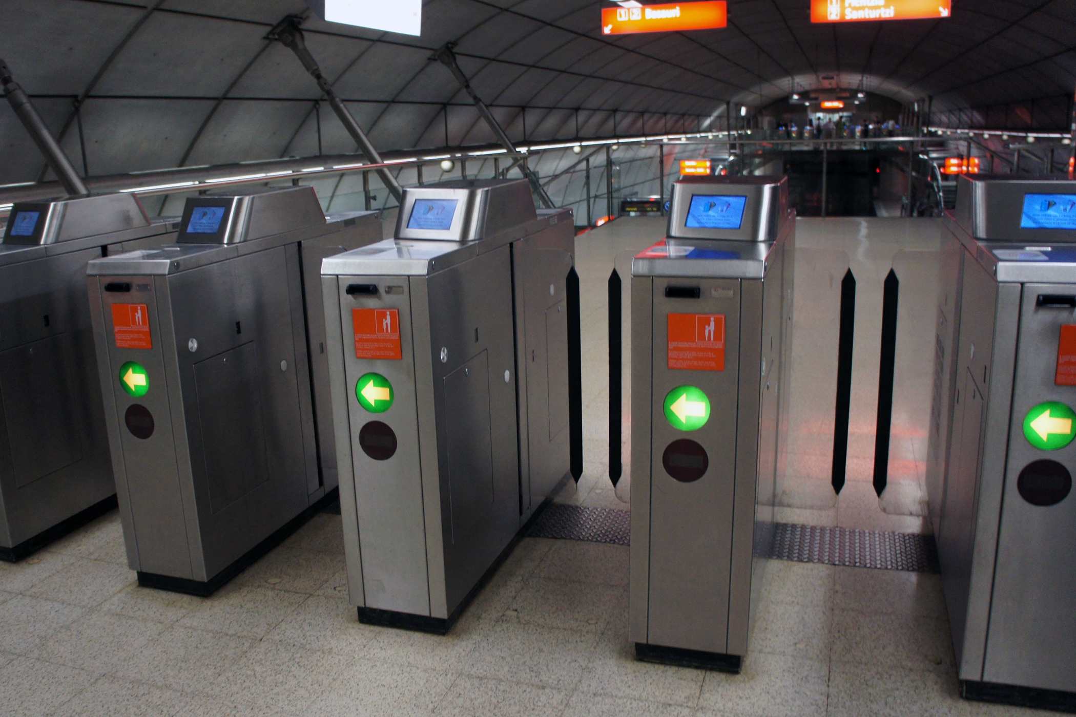 Abando metro station, Bilbao Metro, Basque Country, Spain